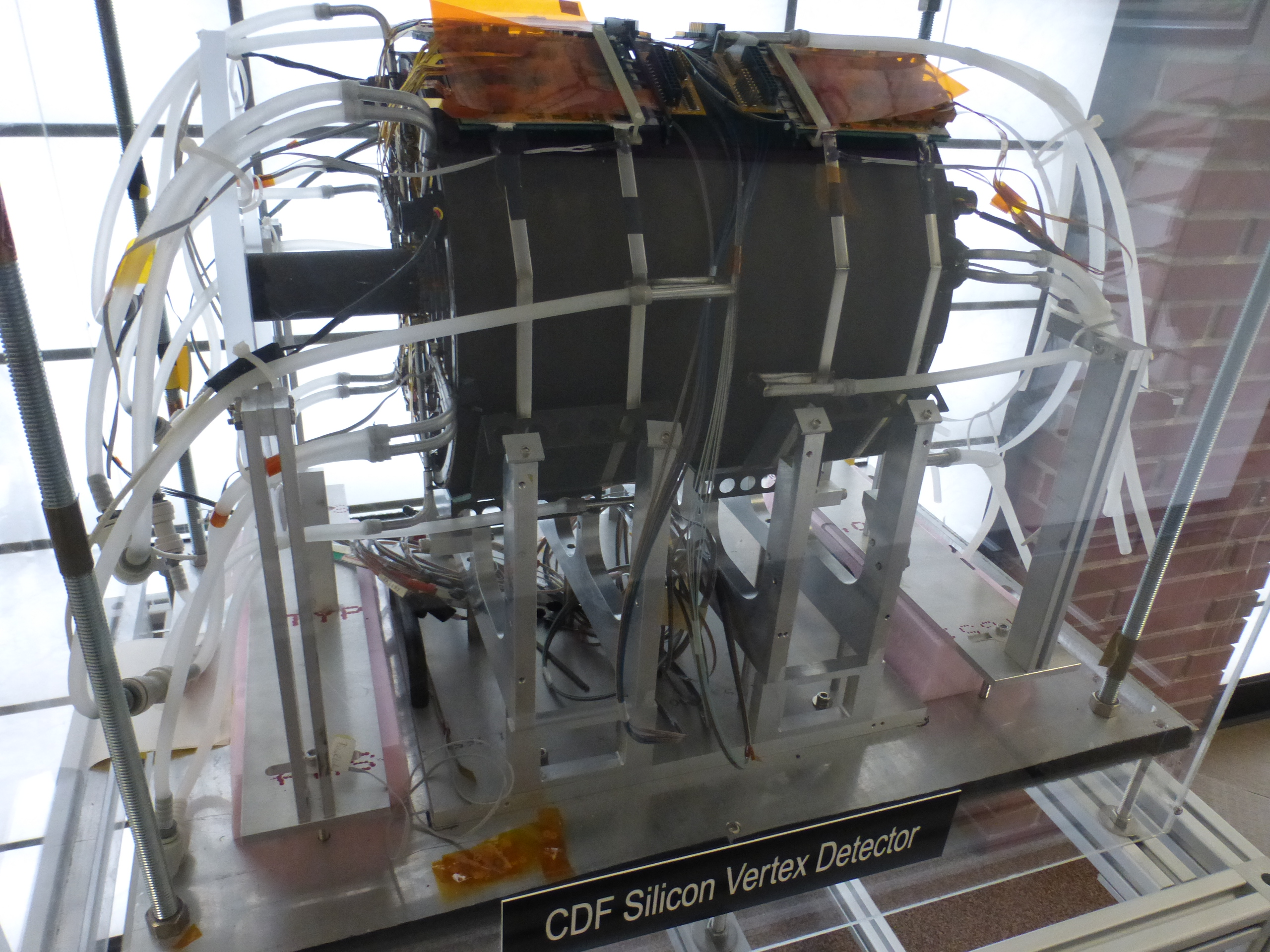 Collider Detector at Fermilab (CDF) silicon vertex detector. It was part of the Tevatron, now on display at Lederman Science Center.